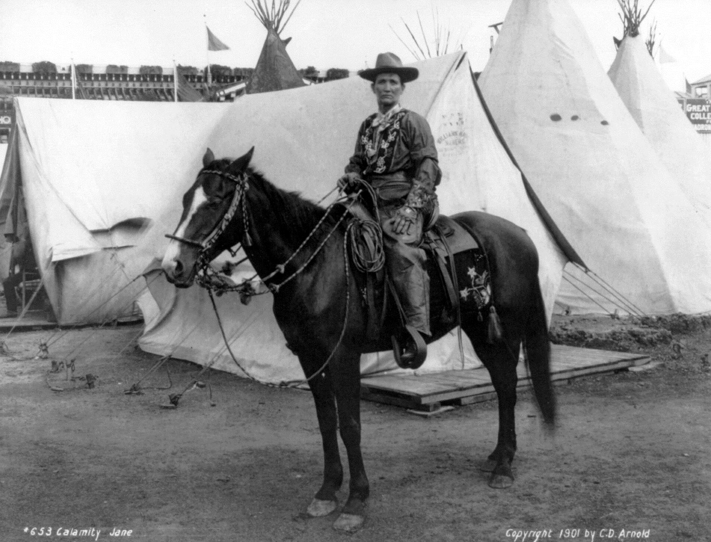 Martha Jane Burke ("Calamity Jane"), full-length portrait, on horseback